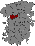 Location of Fígols in Berguedà